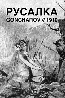 Film of poster of The Rusalka